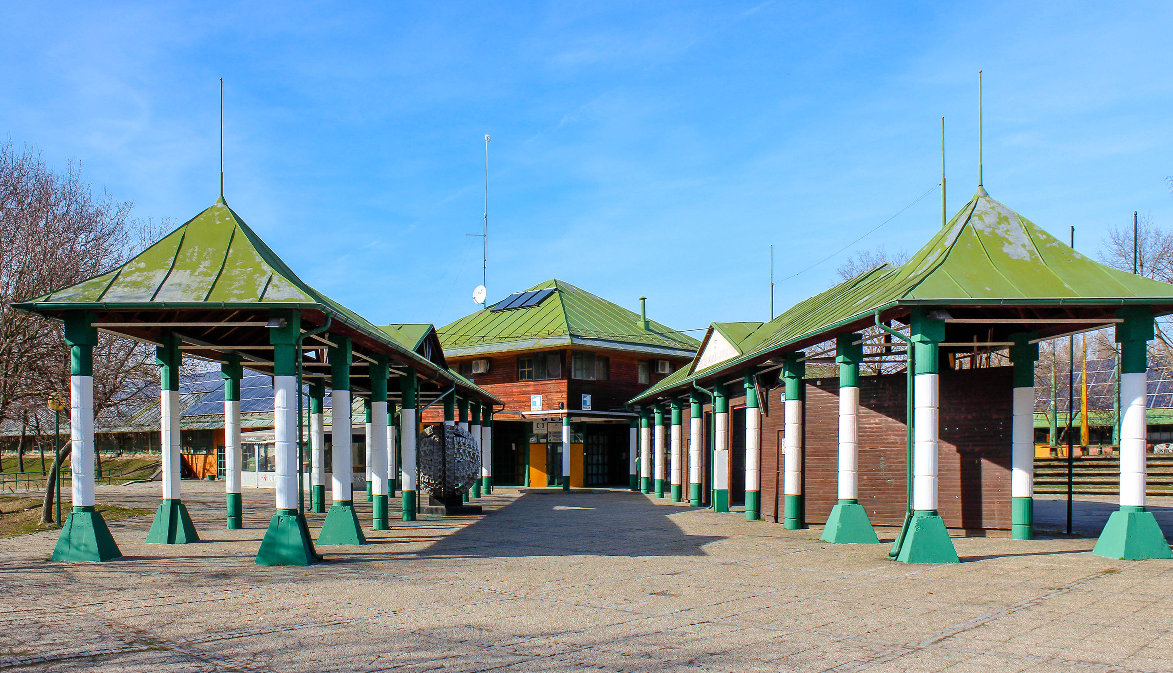 Pampas Osijek